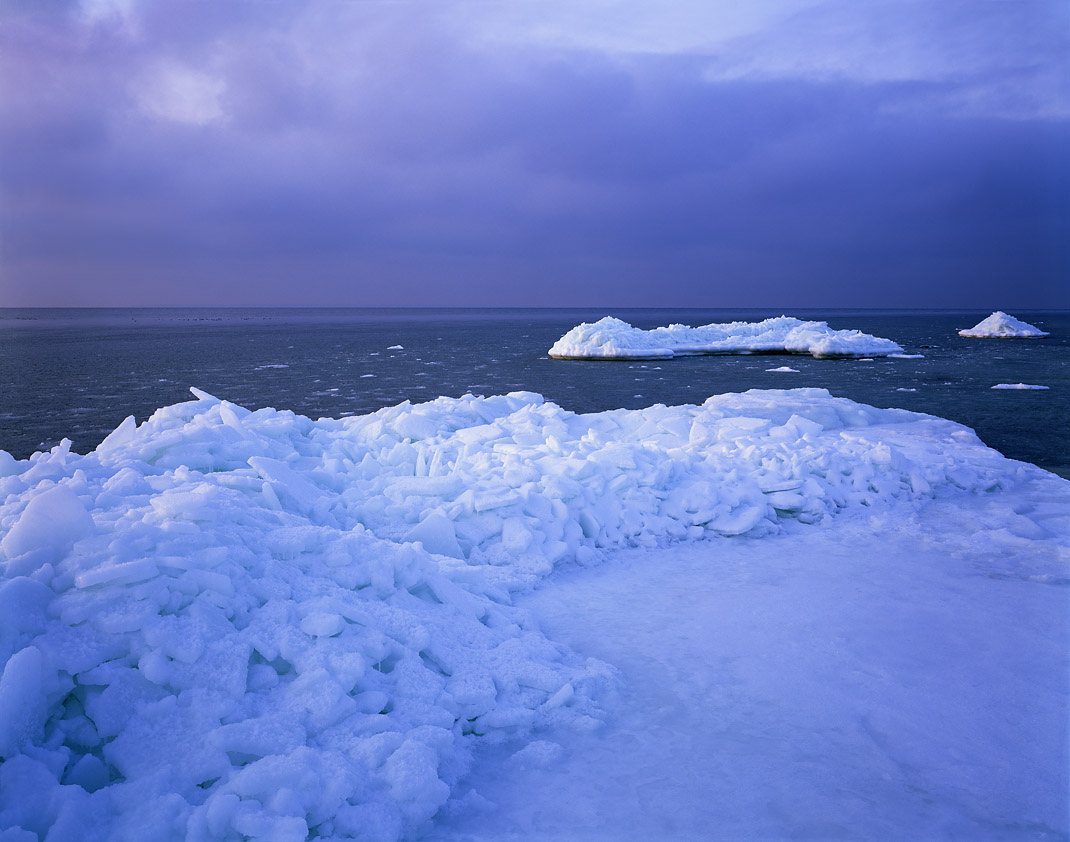 Baltic Sea in Estonia.